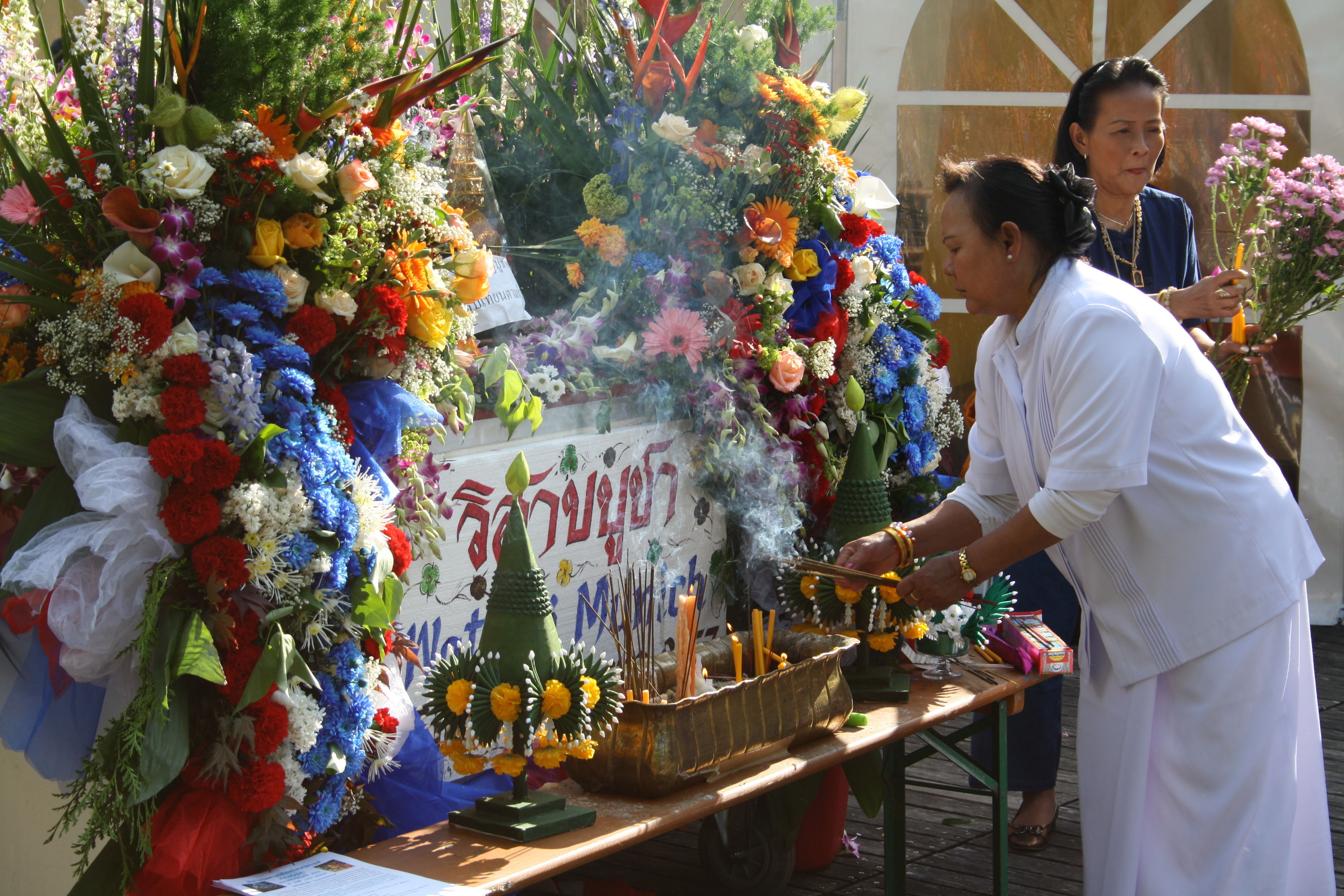 Buddhist Vesakh celebration in Munich Westpark